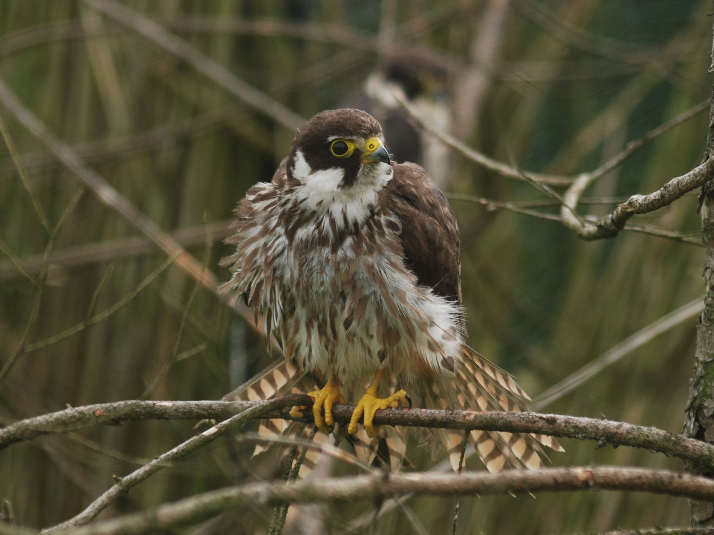 Eurasian hobby